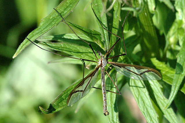 Pedicia rivosa from Commanster, Belgian High Ardennes .